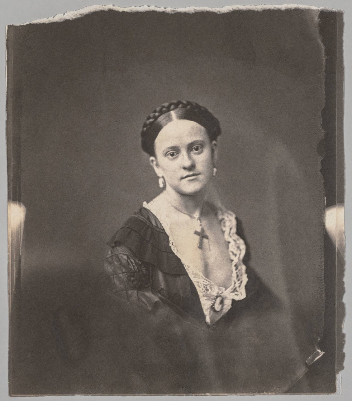 wet collodion negative on salted paper